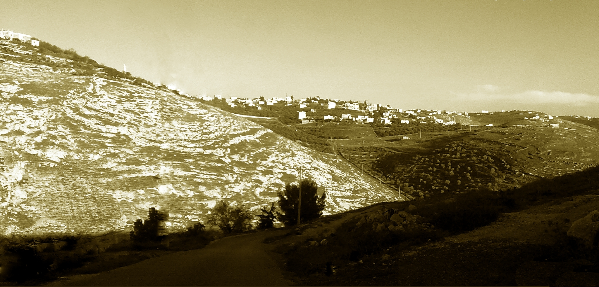 Al Bateen in Johfiyeh Irbid Jordan Sephia photo